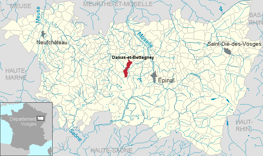 Damas-et-Bettegney in the department of Vosges, Lorraine, France